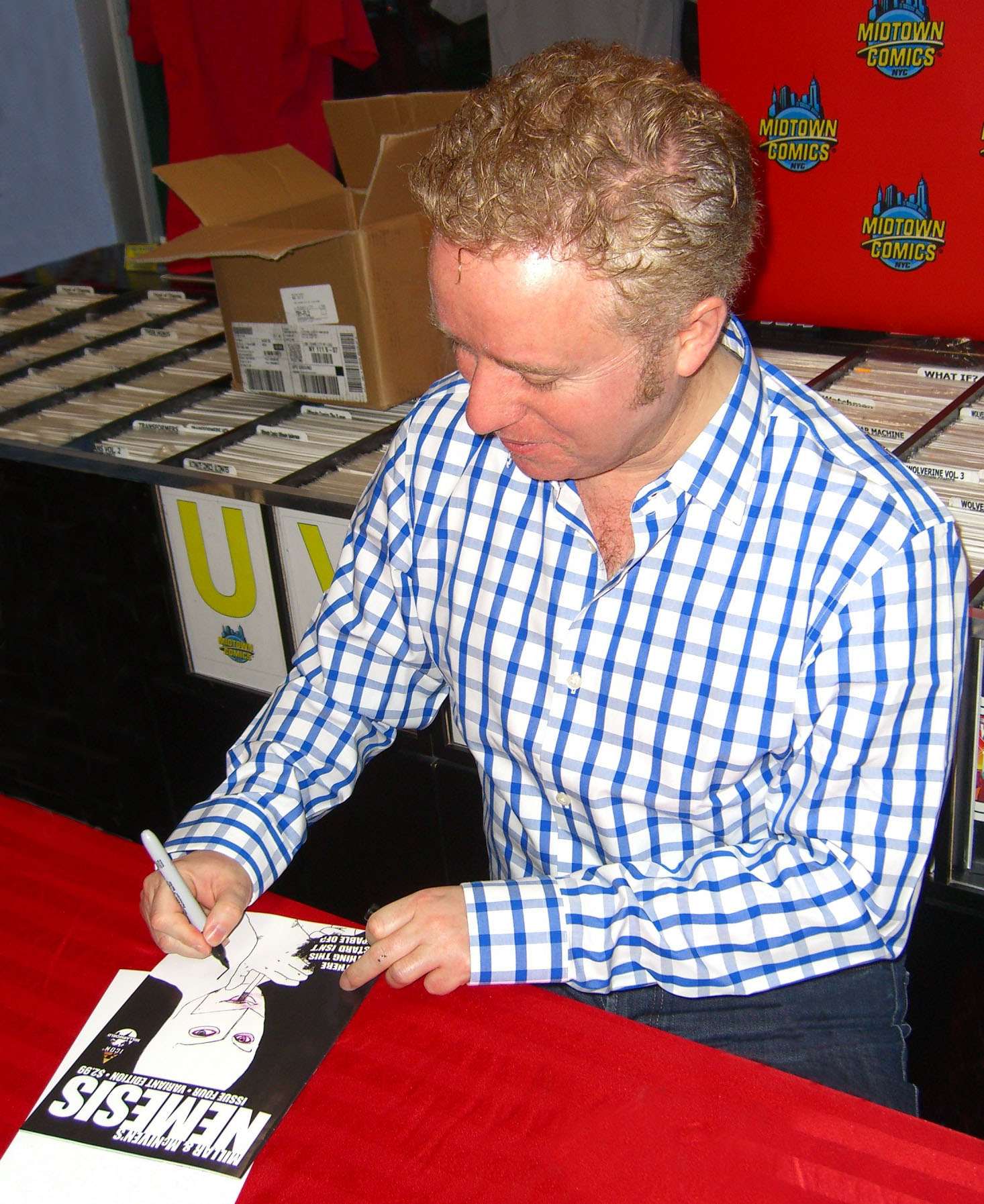 Scottish comics writer Mark Millar at an April 25, 2013 signing at Midtown Comics in Manhattan for his miniseries, Jupiter's Legacy, which debuted the day prior. In the photo, Millar is signing a copy of one of his previous works, Nemesis. This photo was created by Luigi Novi. It is not in the public domain, and use of this file outside of the licensing terms is a copyright violation.